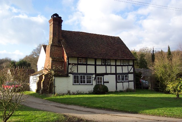 Ewood Farm, near Newdigate, Surrey. Now only very rural and accessible along an unmade track, Ewood was, until the late 16th century, a major centre for ironmaking.